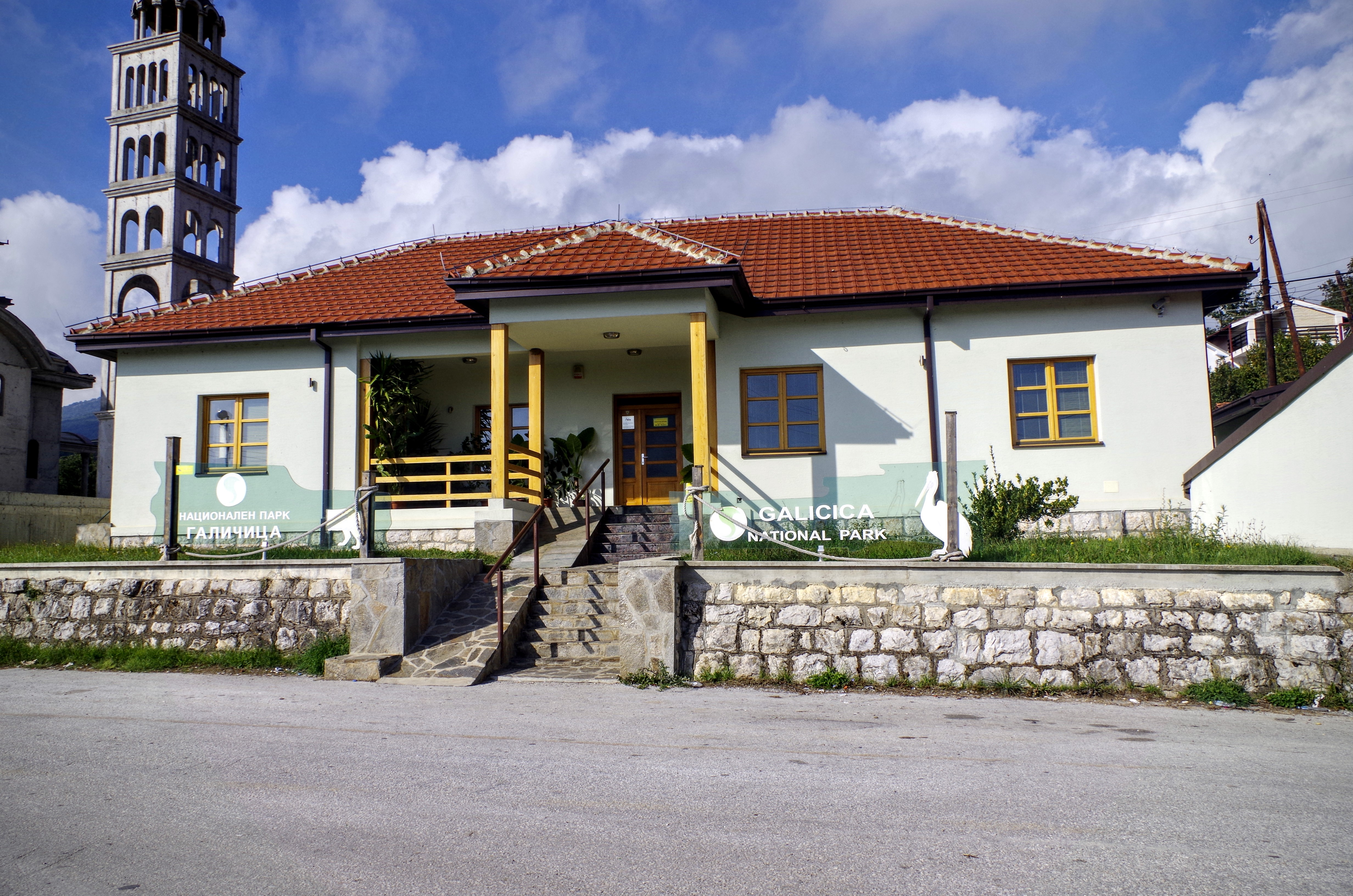 View of the office of National Park Galicica in the village Stenje